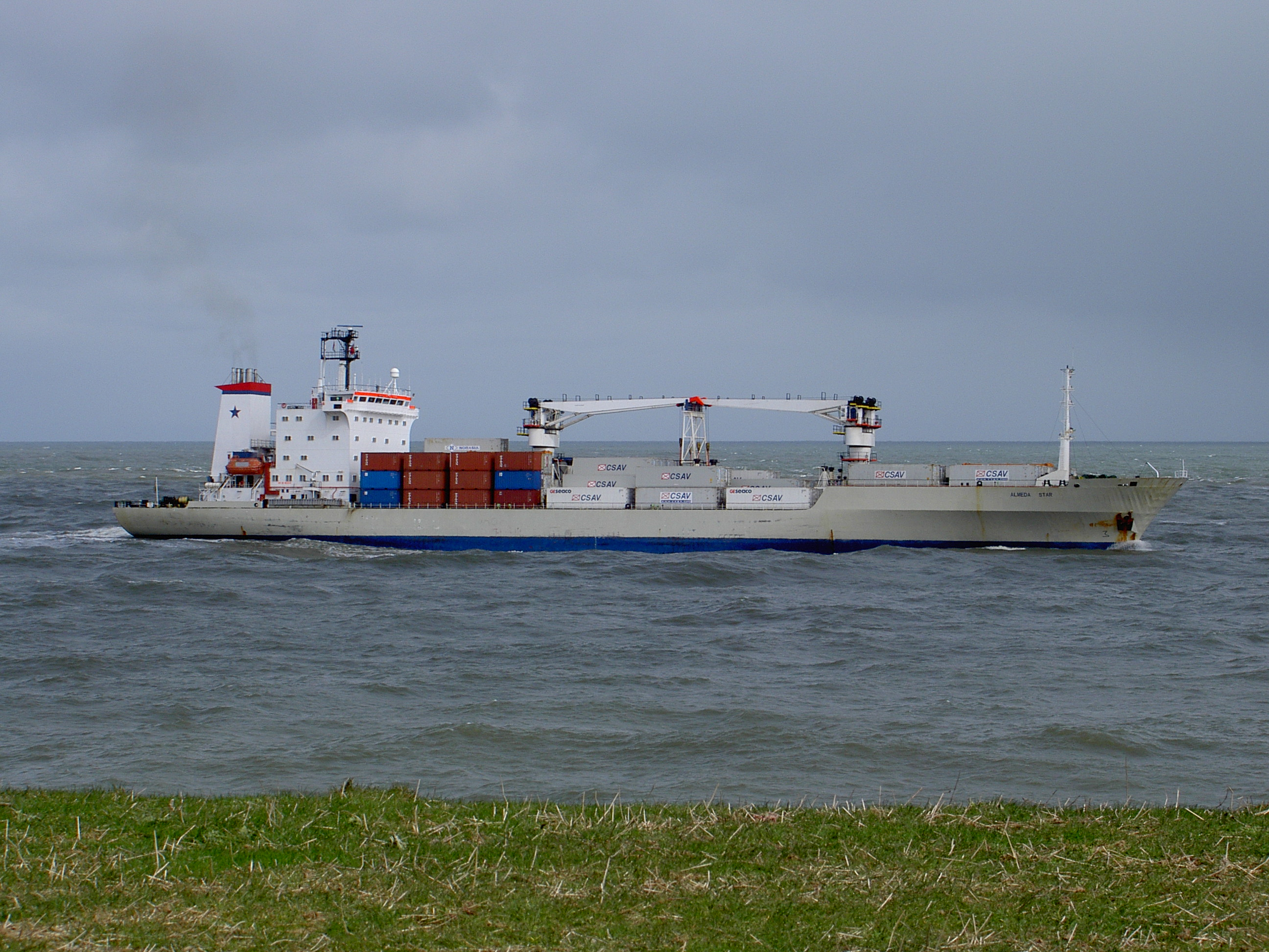 Almeda Star IMO 8816156, Port of Rotterdam 09-Apr-2005.